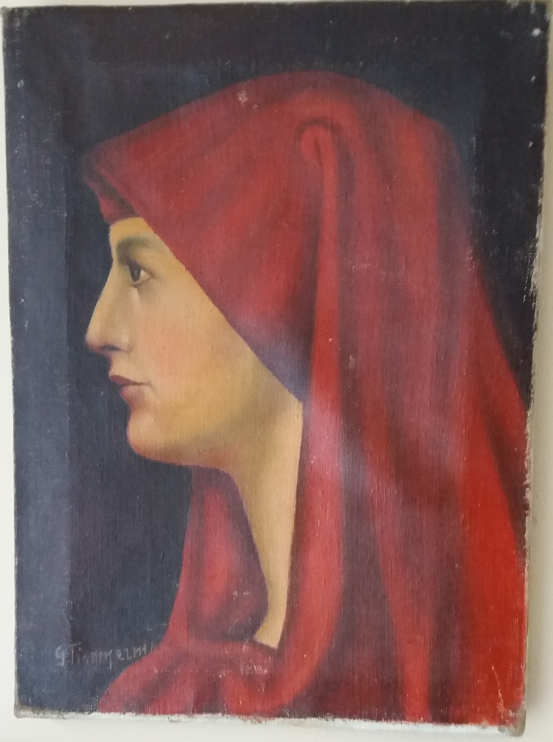 This mid-20th-century painting is signed G Timmerman(s) [indistinct] and is painted in oil on canvas. It is typical of the type of image collected in the Fabiola Project. Private Collection